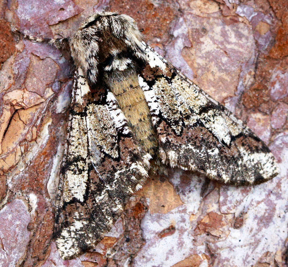 Recent moth bits and a welcome returning species On Tuesday at work I was just checking the bug zapper in the kitchen (as I do frequently to see if there's any interesting deceased moths amongst the frazzle of flies, I found 2 Emmelina monodactyla, 1 Agonopterix heracliana and an Epiphyas postvittana, pretty much expected species in the middle of a town but as I just moved the zapper I saw a large dark micro just sitting there...and I said to myself 'Well I wasn't expecting to see a Diurnea fagella' it being new for the year for me...rescued from the perils of electricity I took him home for a better photo. That same night and after another mild day hitting 16 degrees the trap went out at 6pm ready to see what might turn up come the morning, the sky did clear and it was a little cool this morning with a heavy dew but I was still pleased with 12 moths of 8 species which I know seems little in comparison to other trappers lists at the moment. It was certainly quality over quantity as well with even a mint condition Epiphyas postvittana grabbing my attention for a photo. The best moth for me was a very pale Lead-coloured Drab, only my second record for the garden (I had forgot that I first took this species in 2014). It is a moth that I use to trap commonly when I lived with my parents, sometimes 5 or 6 per trap would you believe! Also my second Oak Beauty of the year was nice and a really striking Clouded Drab had to have it's shoot with the Lead-coloured Drab. All in all a pleasing result. Catch Report - 14/03/17 - Back Garden - Stevenage - 1x 125w MV Robinson Trap Macro Moths 1x Lead-coloured Drab [NFY] 2x Clouded Drab 3x Common Quaker 1x Early Grey 1x Hebrew Character 2x March Moth 1x Oak Beauty Micro Moths 1x Epiphyas postvittana